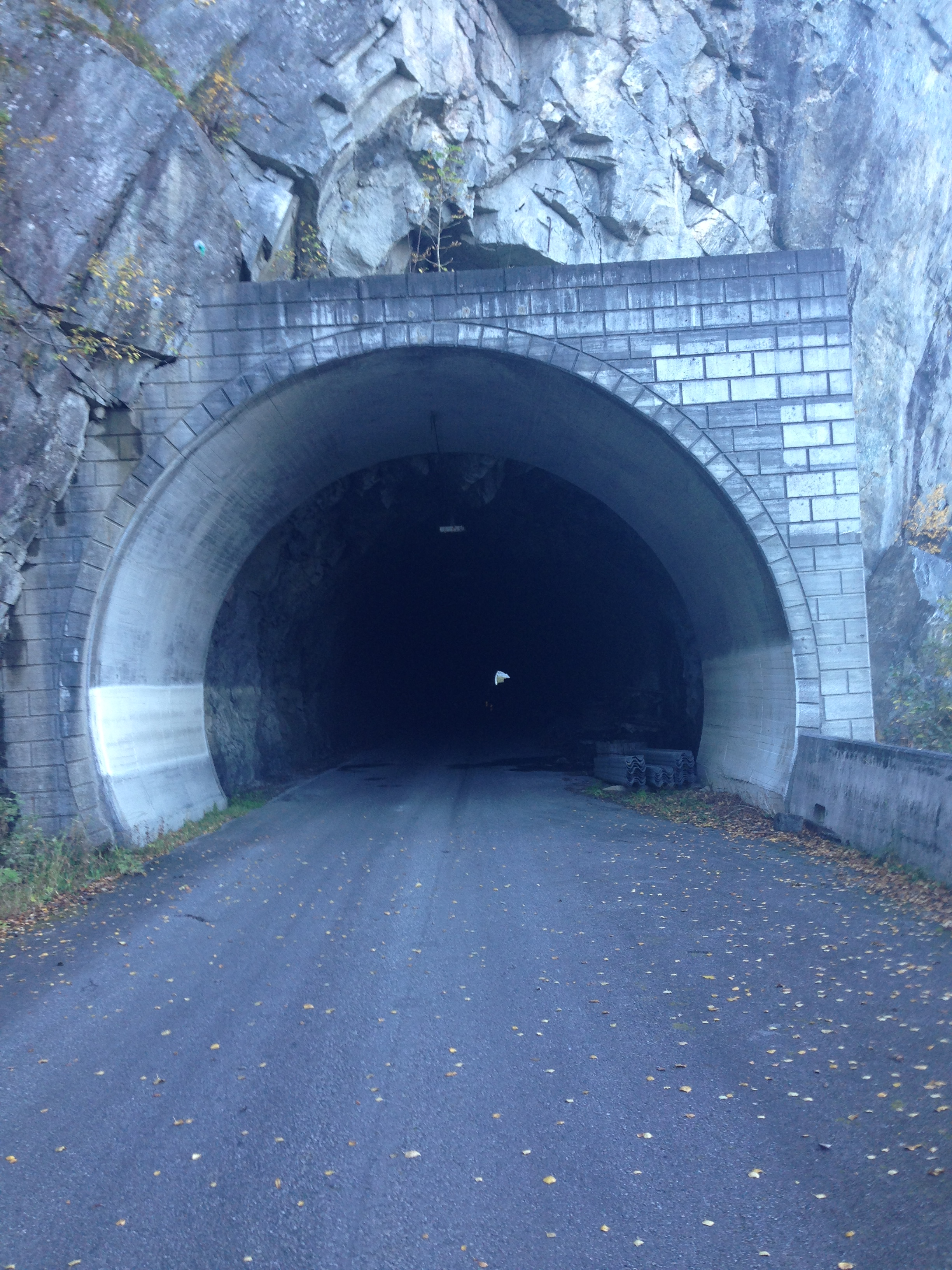 Varghammar tunnel eastern entrance